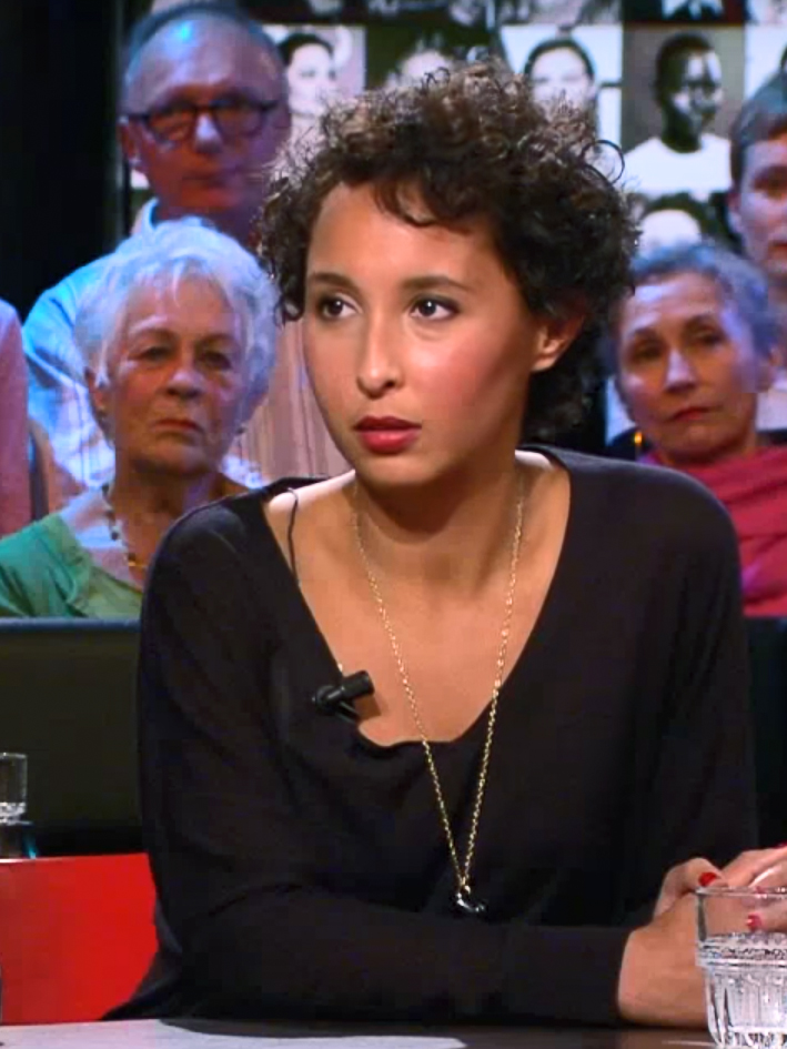 Hasna El Maroudi (2017)